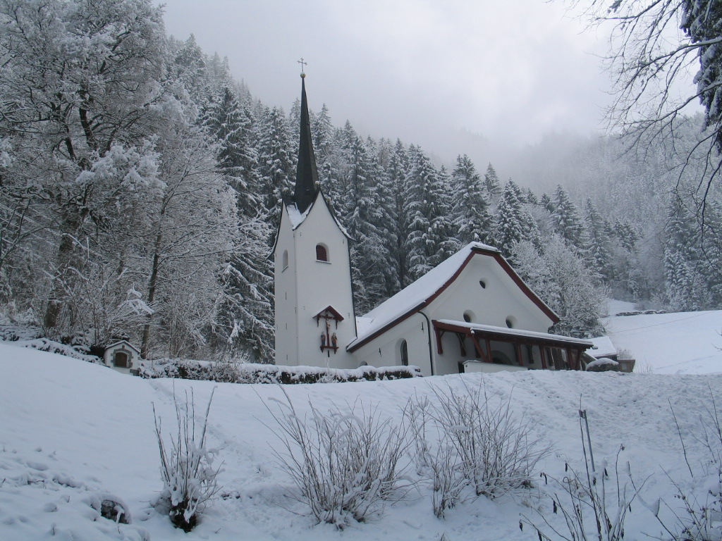 Riedertal chapel, Uri, Switzerland